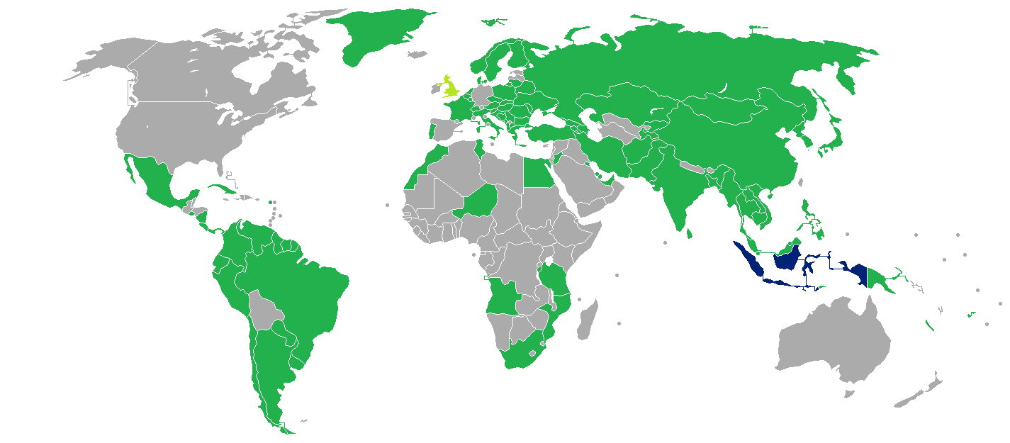 Countries that have agreement of visa waiver for diplomatic and/or service passports holders with Indonesia